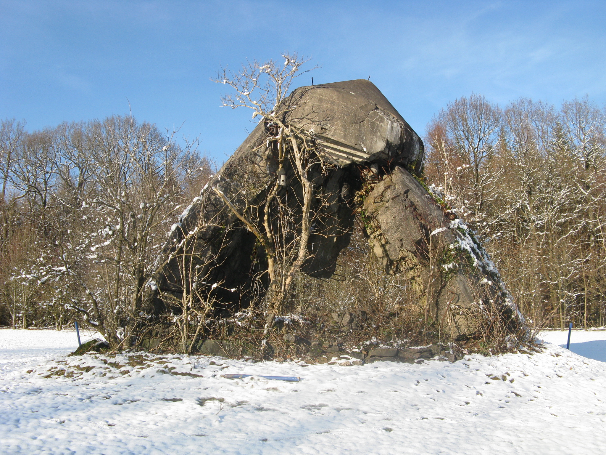 demolished bunker tower, Villbach/Spessart, Germany